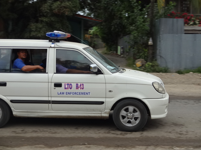 This is my own work. The Mitsubishi Adventure Patrol Car of the Land Transportation Office of the Department of Transportation (DOTr)